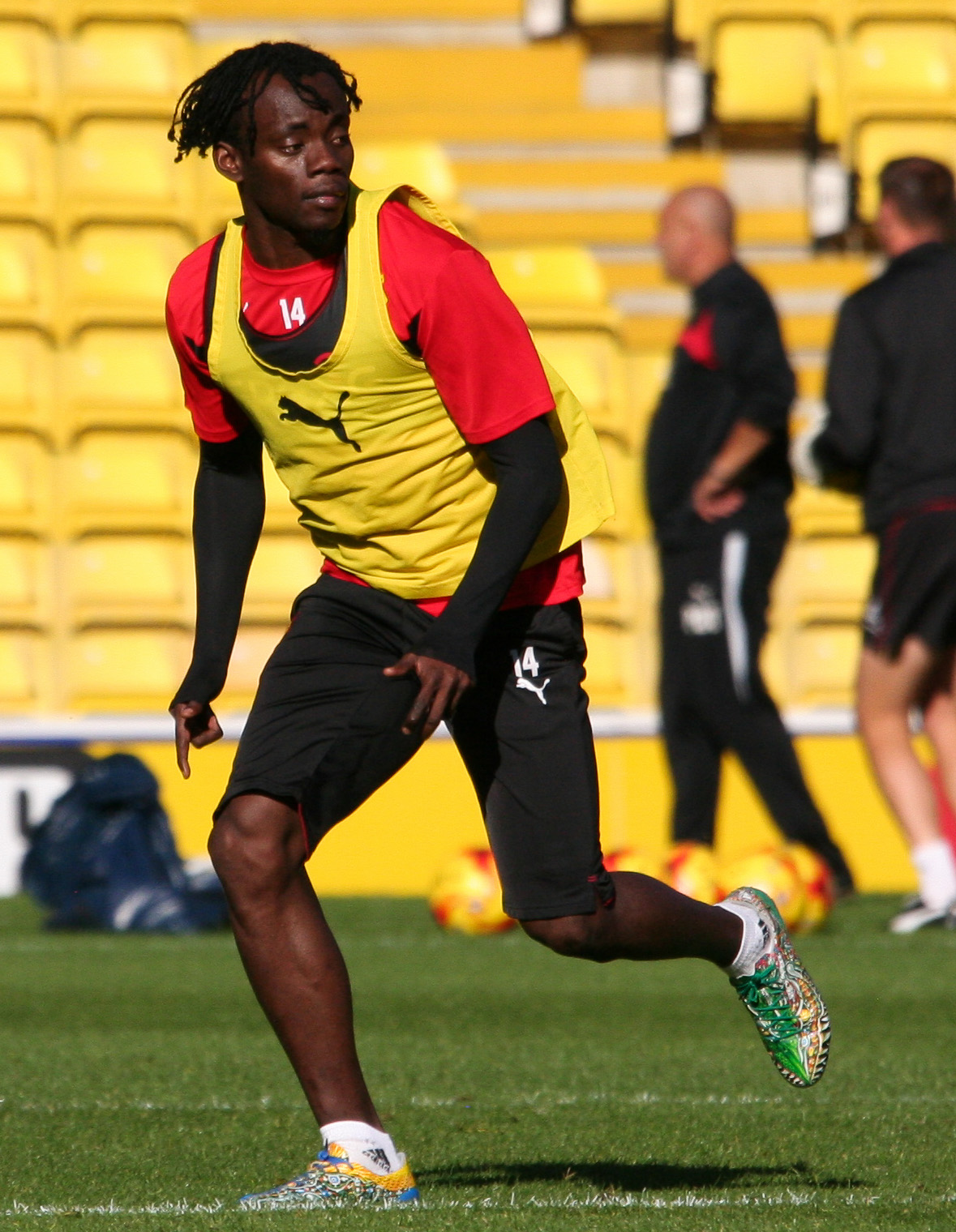 Juan Carlos Paredes at Watford's open training on 28 October 2014.